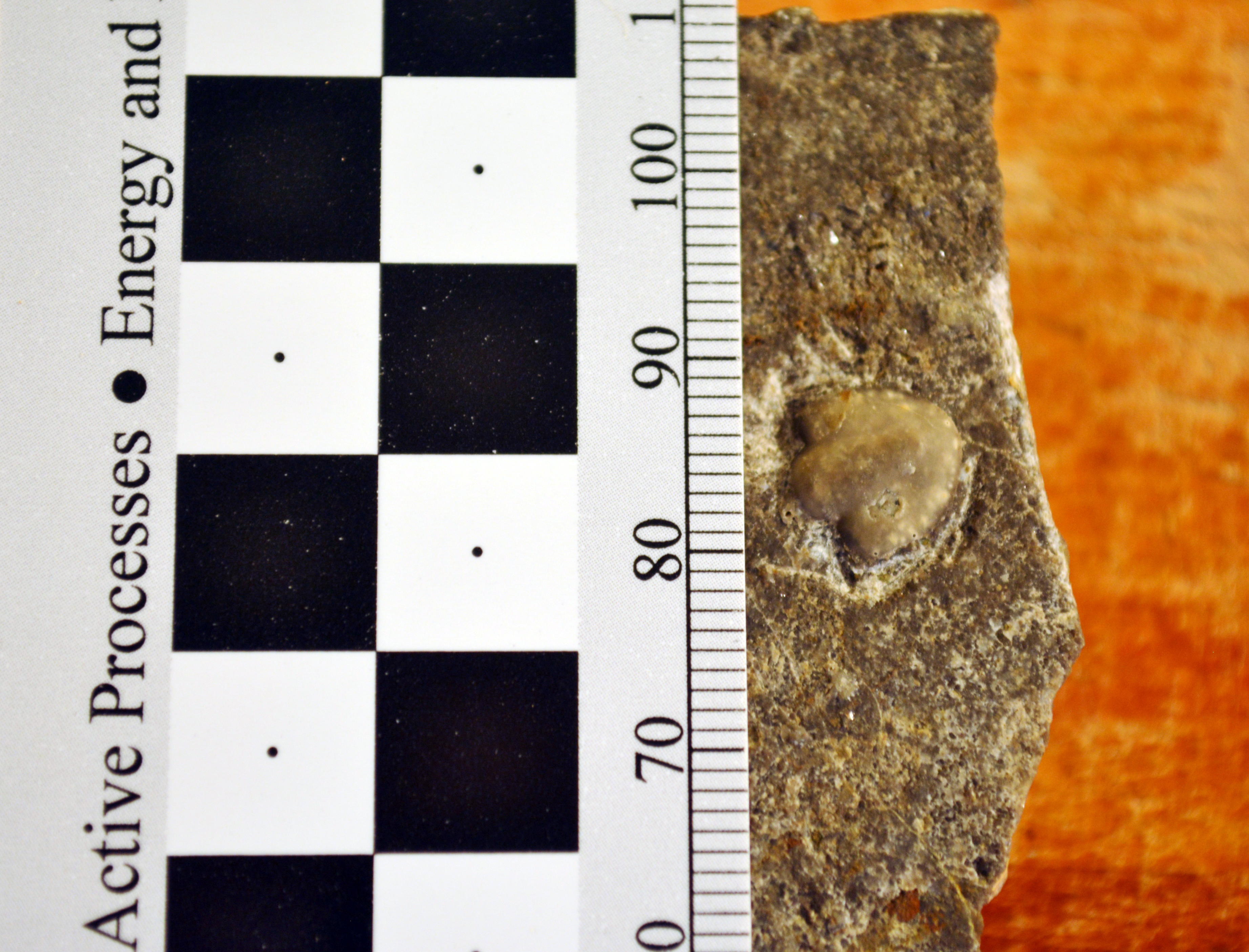 USNM_96488: The trilobite Blountia polita (USNM_96488) (pictured) was discovered in the Middle Cambrian (~520 million years ago), Pilgrim Formation of Yellowstone National Park. As trilobites continued to evolve during the Paleozoic, so did their vision. From a lack of eyes to compound eyes, trilobites' vision is well documented in the fossil record, and because of this, scientists are able to get insights on vision and the origin of eyes themselves. As trilobites' habitat changed, their bodies had to as well so they could continue to survive. Collecting any natural resources, including rocks and fossils, is illegal in Yellowstone. Photo by Megan Norr; March 2016; Catalog #20797d; Original #USNM_96488